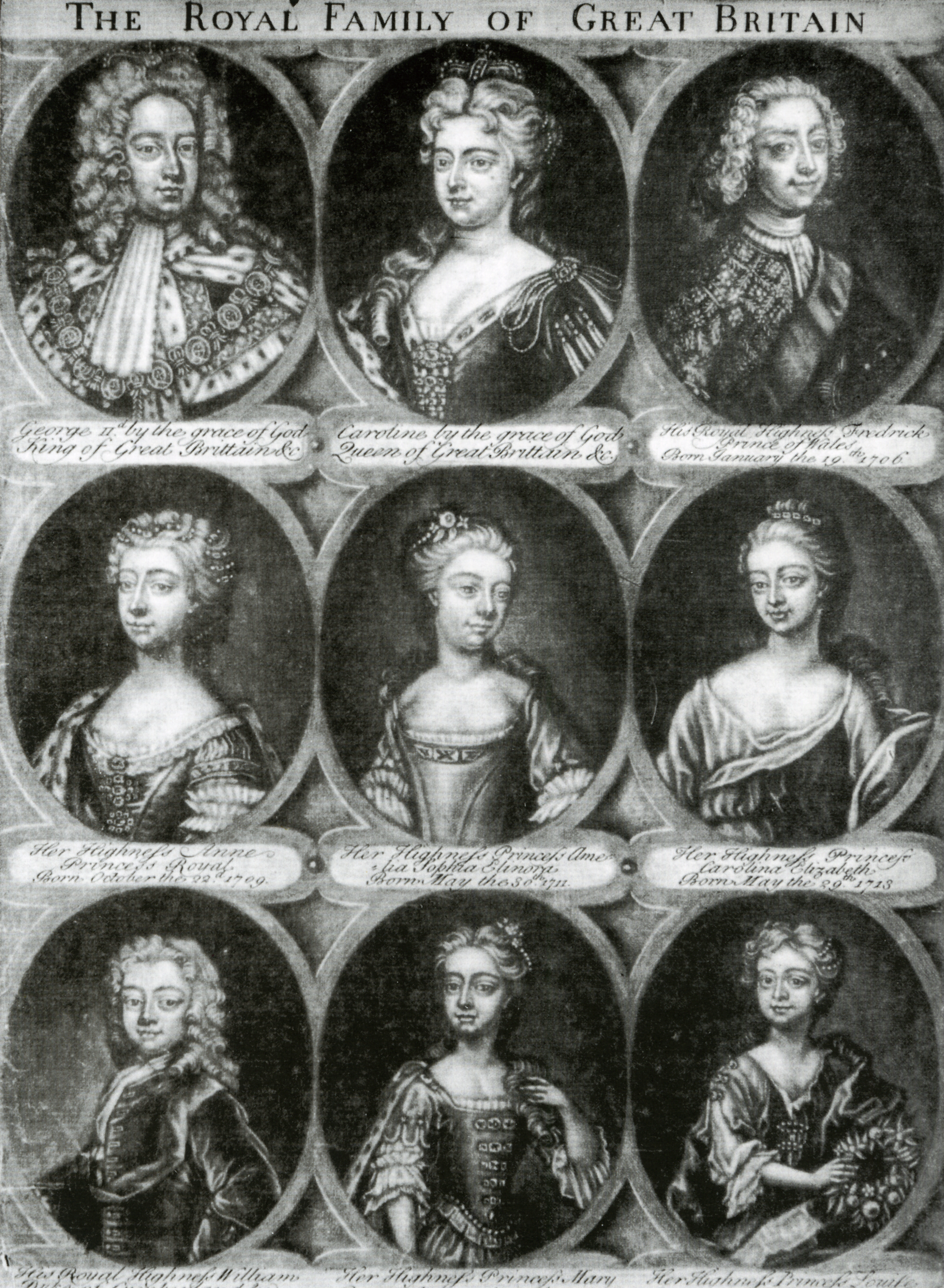 This PNG image has a thumbnail version at File: George II, Queen Caroline, and children.jpg. Generally, the thumbnail version should be used when displaying the file from Commons, in order to reduce the file size of thumbnail images. Any edits to the image should be based on this PNG version in order to prevent generational loss, and both versions should be updated. See here for more information. George II with his family. Unknown engraver. Mezzotint, 34.5 x 25cm (13 1/2 x 9 3/4"). National Portrait Gallery (RN45127). National Portrait Gallery: NPG D3023 While Commons policy accepts the use of this media, one or more third parties have made copyright claims against Wikimedia Commons in relation to the work from which this is sourced or a purely mechanical reproduction thereof. This may be due to recognition of the "sweat of the brow" doctrine, allowing works to be eligible for protection through skill and labour, and not purely by originality as is the case in the United States (where this website is hosted). These claims may or may not be valid in all jurisdictions. As such, use of this image in the jurisdiction of the claimant or other countries may be regarded as copyright infringement. Please see Commons:When to use the PD-Art tag for more information.See User:Dcoetzee/NPG legal threat for original threat and National Portrait Gallery and Wikimedia Foundation copyright dispute for more information. This tag does not indicate the copyright status of the attached work. A normal copyright tag is still required. See Commons:Licensing.